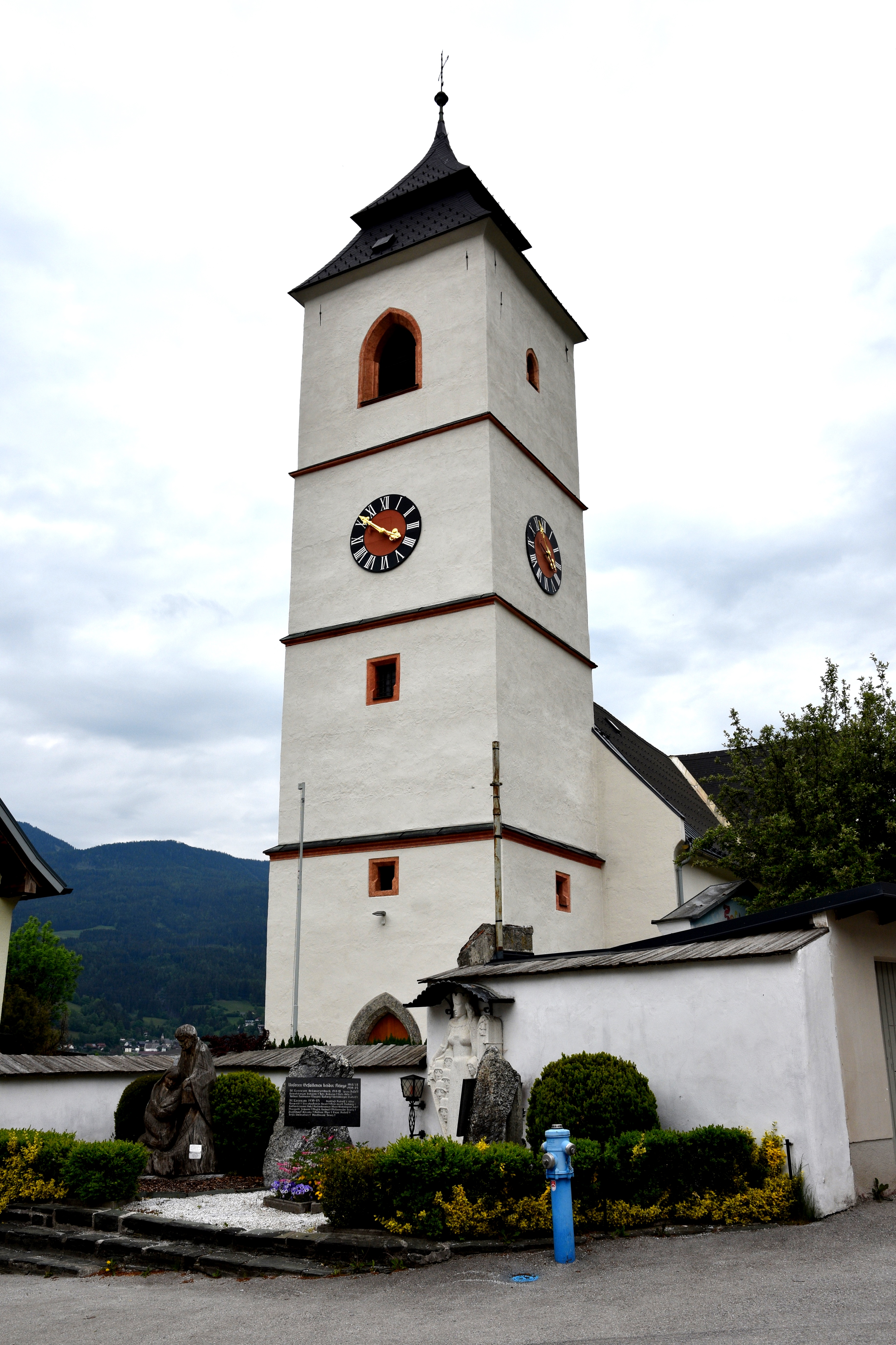 Church Pfarrkirche St. Lorenzen (Trieben)